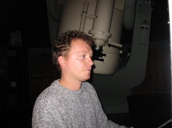 Krisztian Sarneczky Hungarian astronomer.